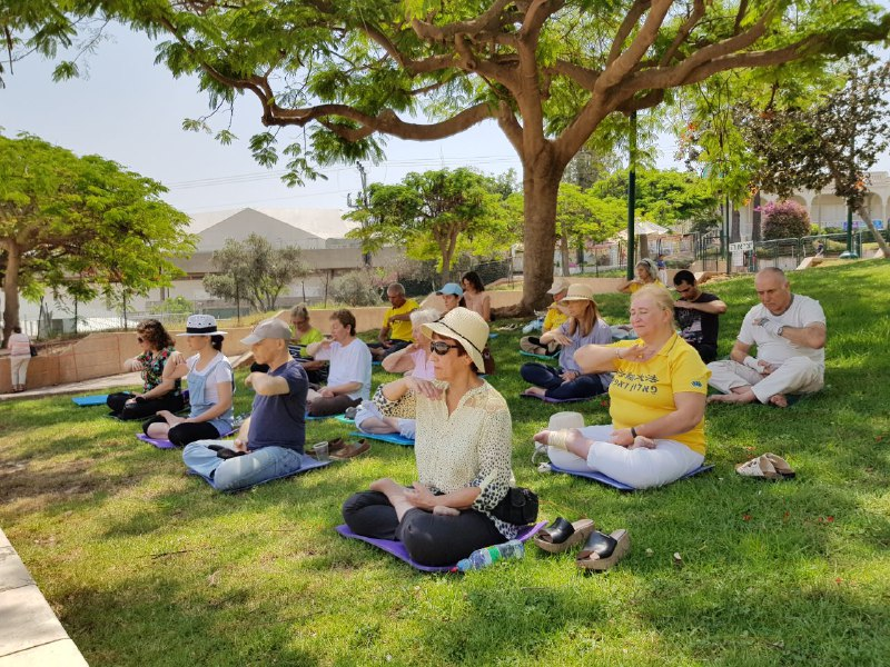 Falun Dafa practitioners sit in meditation in Beit Berl, Israel